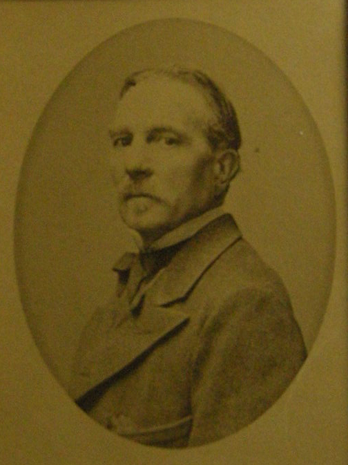 Picture of the beginning of XX century (1900-1903)